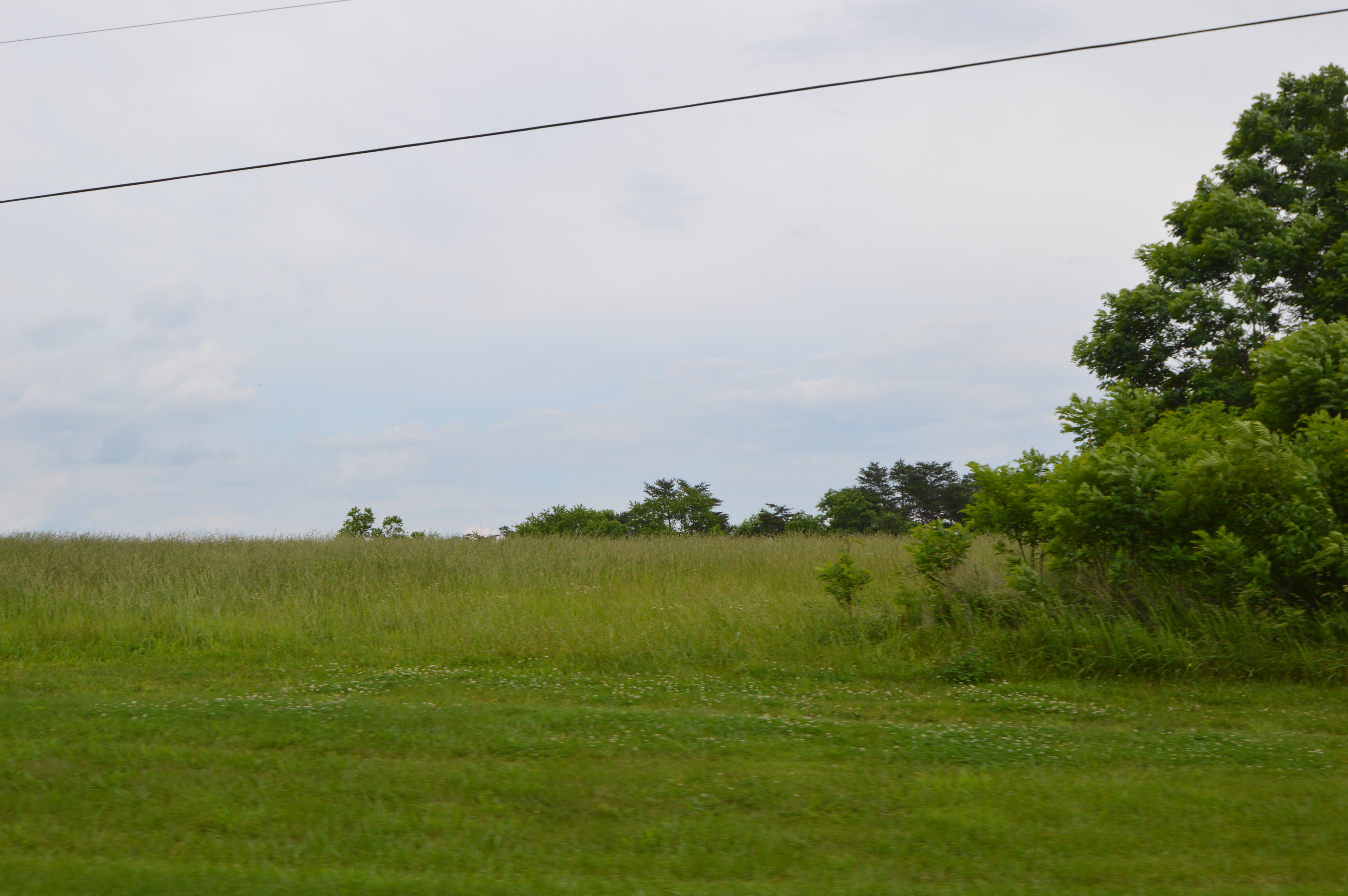 Fields at the Booth-Lovelace Farm, located off State Route 116 northwest of Burnt Chimney in Franklin County, Virginia, United States. The farm is listed on the National Register of Historic Places.